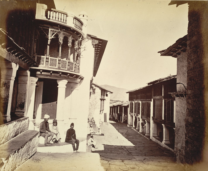 'Almora Bazaar', the main market of Almora city, Uttarakhand. c1860.